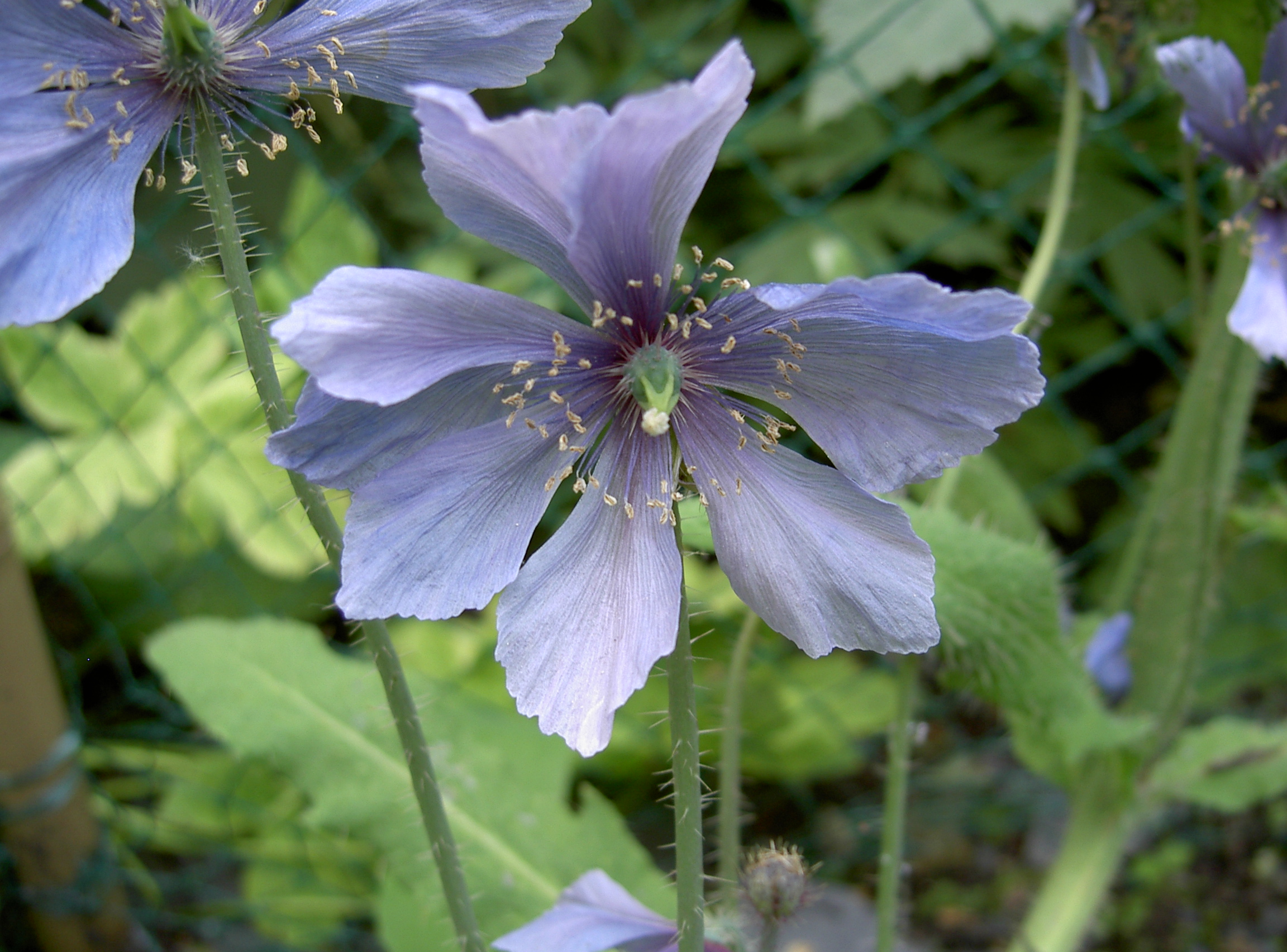 Meconopsis horridula. Photo taken in the Jardin des Plantes in Paris (France)